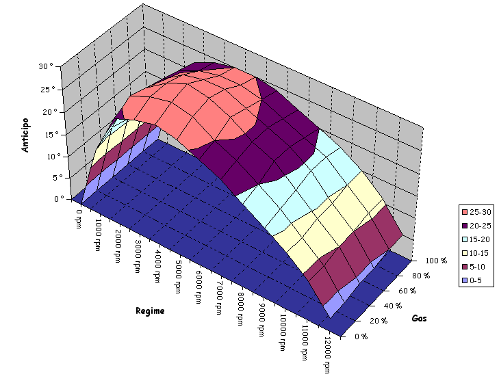 Graph of a curve in advance in relation to the scheme of the engine and the command gas